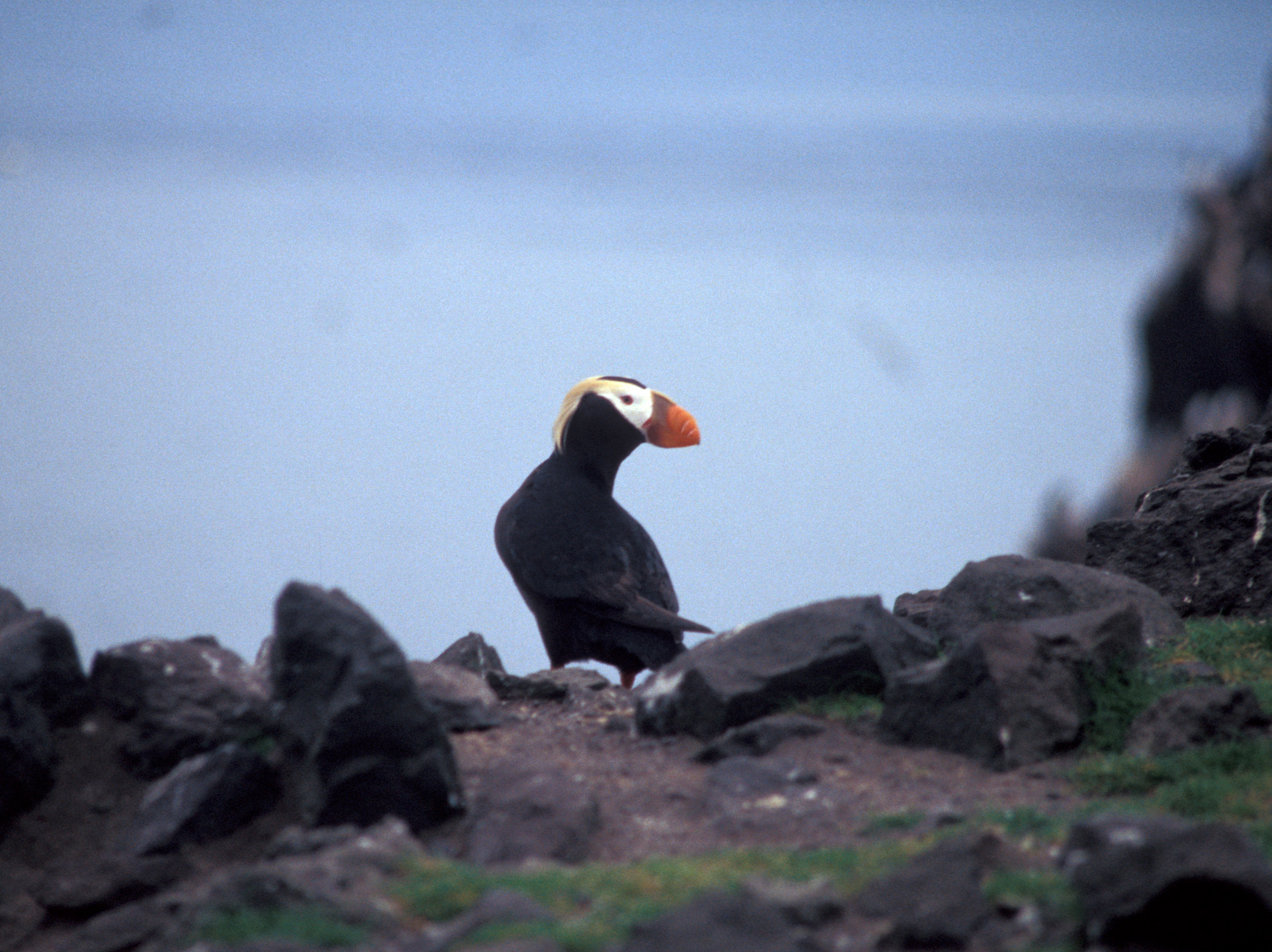 Tufted Puffin (Fratercula cirrhata) Bogoslof Island [1]